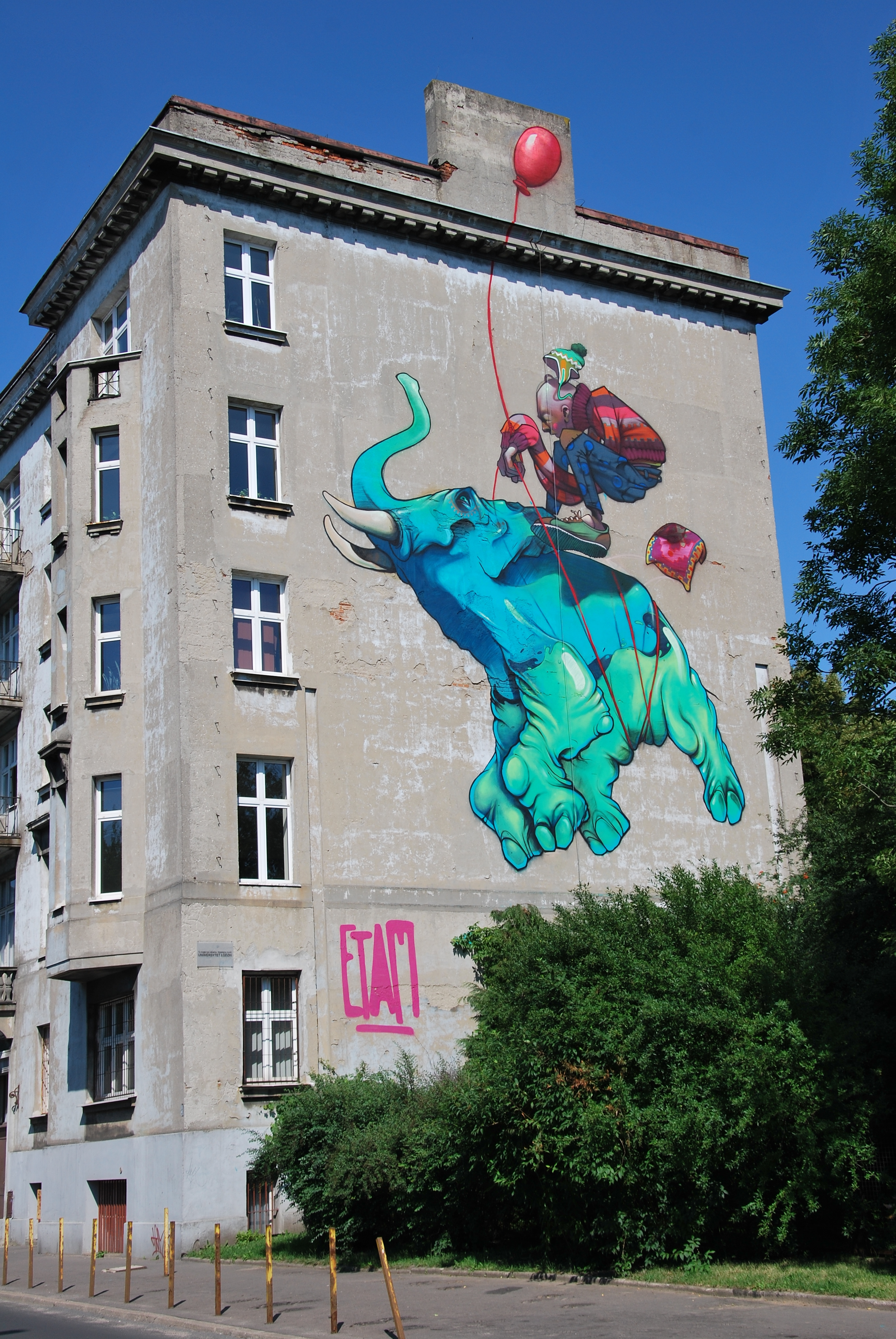 Mural, Łódź Uniwersytecka Street 3; authors ETAMCRU